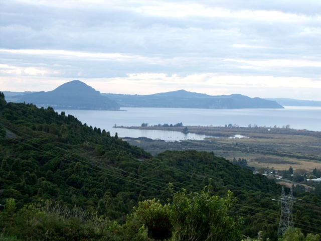 Western Taupo looking borth.